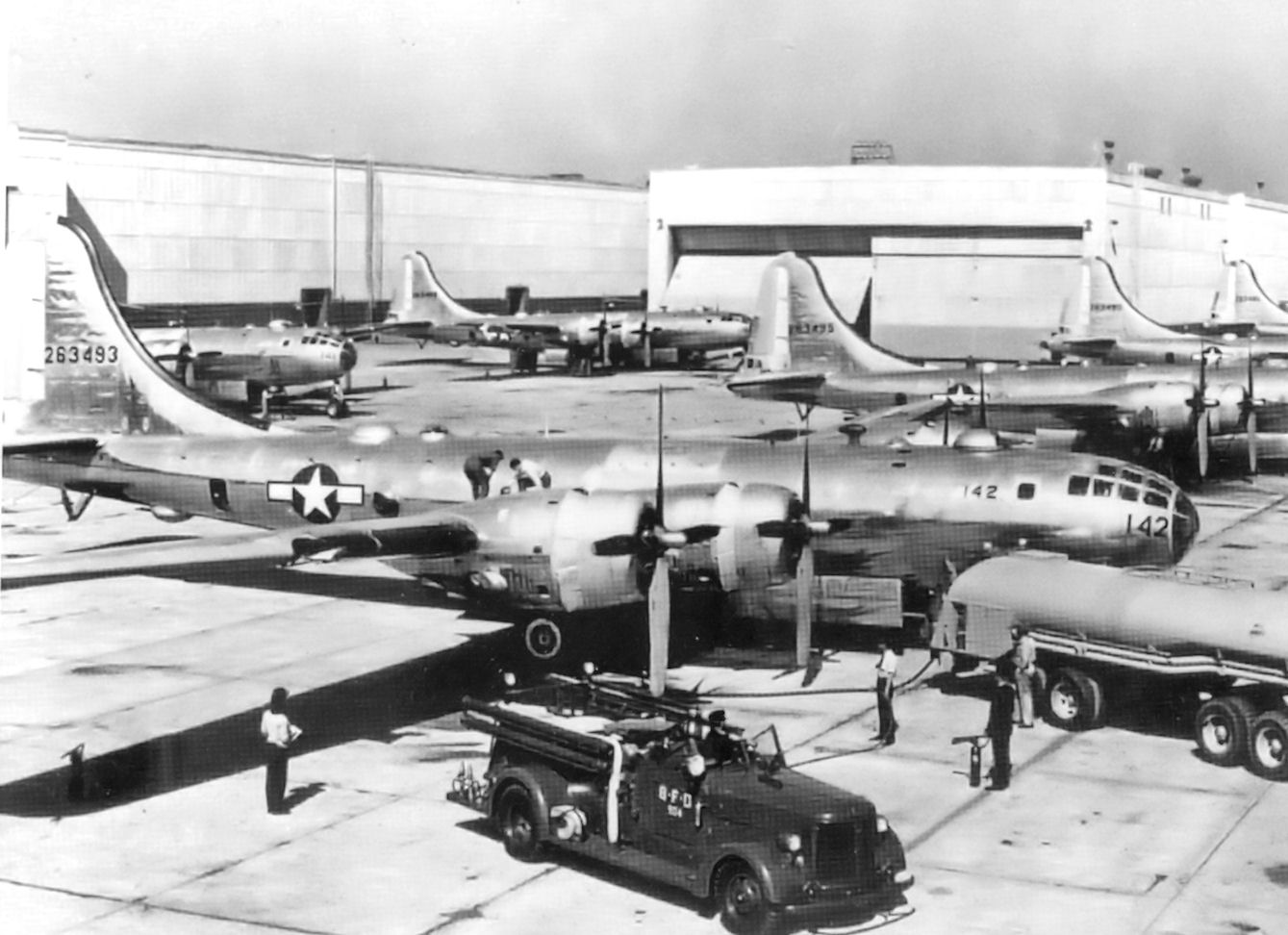 Bell B-29B Superfortress bombers being parked on the ramp at Defense Plant Corporation Plant #6, Marietta Georgia